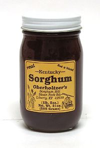 The author releases rights for use on Wikipedia. I sent this message to [1] asking for permission: My name is Aaron, from Western Kentucky, and I'm a fan of sorghum. I was wondering as to if I could use this image in , a free online encyclopedia in the sweet sorghum article ( and elsewhere on that site for informational purposes only. Thank you. His reply: I use the Wikipedia frequently and would be very happy to help you with it. You can use the image -- I shot it myself and there are no copyright restrictions that I would want to apply to it. I can't imagine that Oberholtzers would have a problem with it either, so you should be fine in that regard. I don't know how the Wikipedia handles photo credits, but I would like credit for it. I wouldn't expect you to hotlink to the product page, but you could always just do Please let me know what you think. Tom [-Tom Esrey/tom AT atasteofkentucky DOT com]